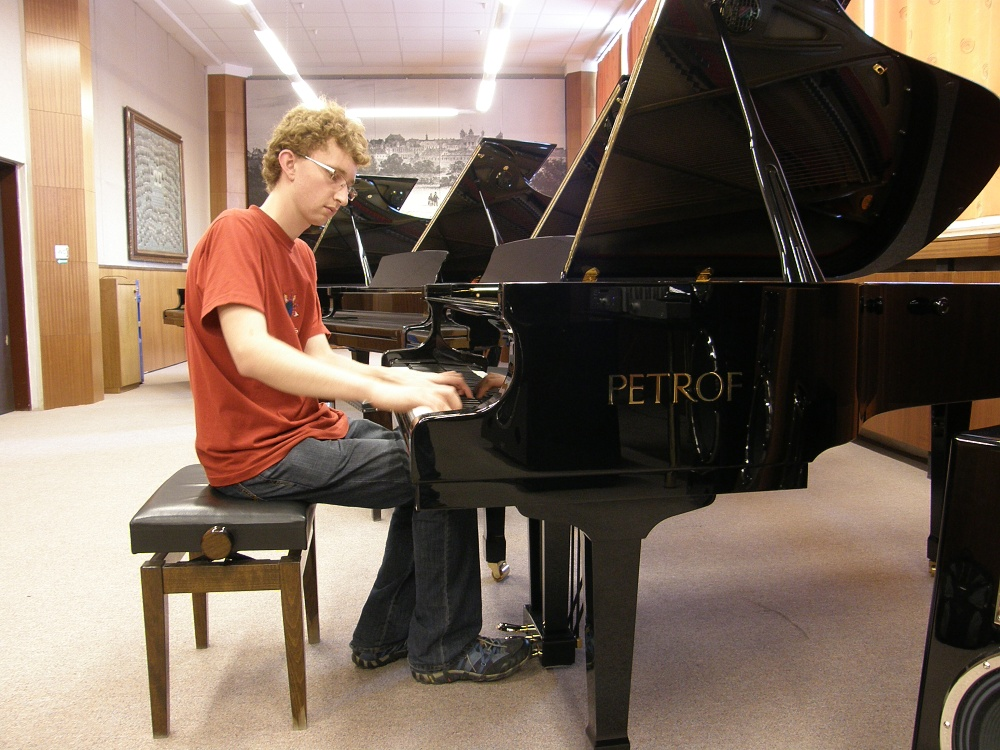 Richard Vacula in PETROF company.